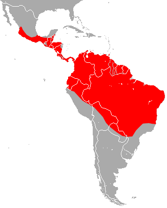 Northern Ghost Bat (Diclidurus albus) range